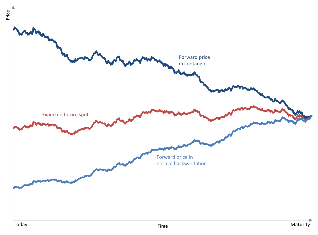 Graph showing contango and normal backwardation market conditions in the forward market